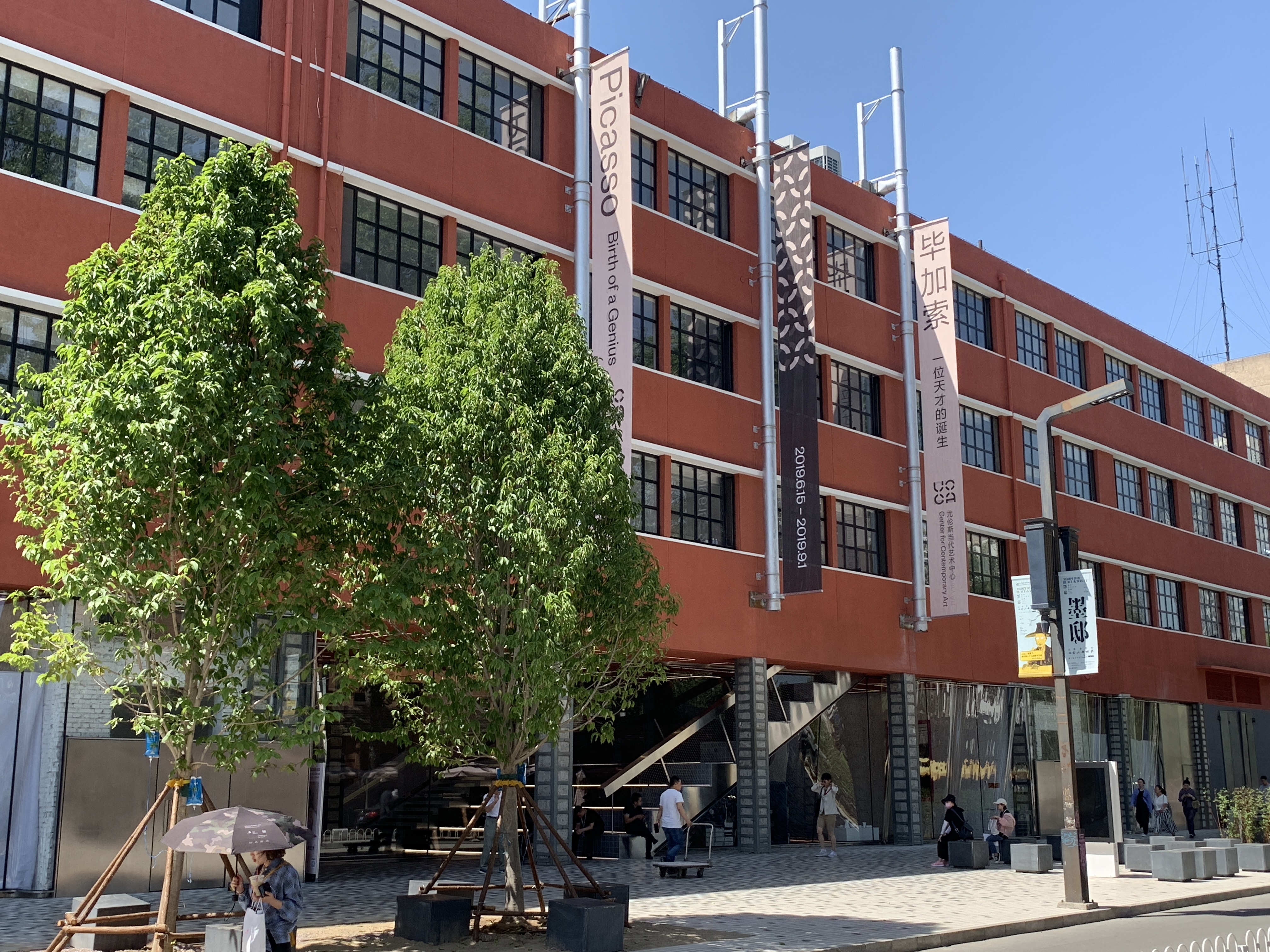 The museum's regenerated entrance, facade, and forecourt designed by OMA are visible in the photo.